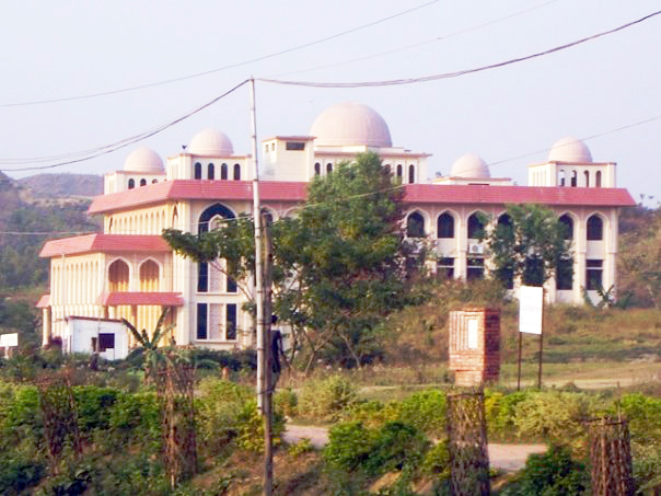 IIUC Library